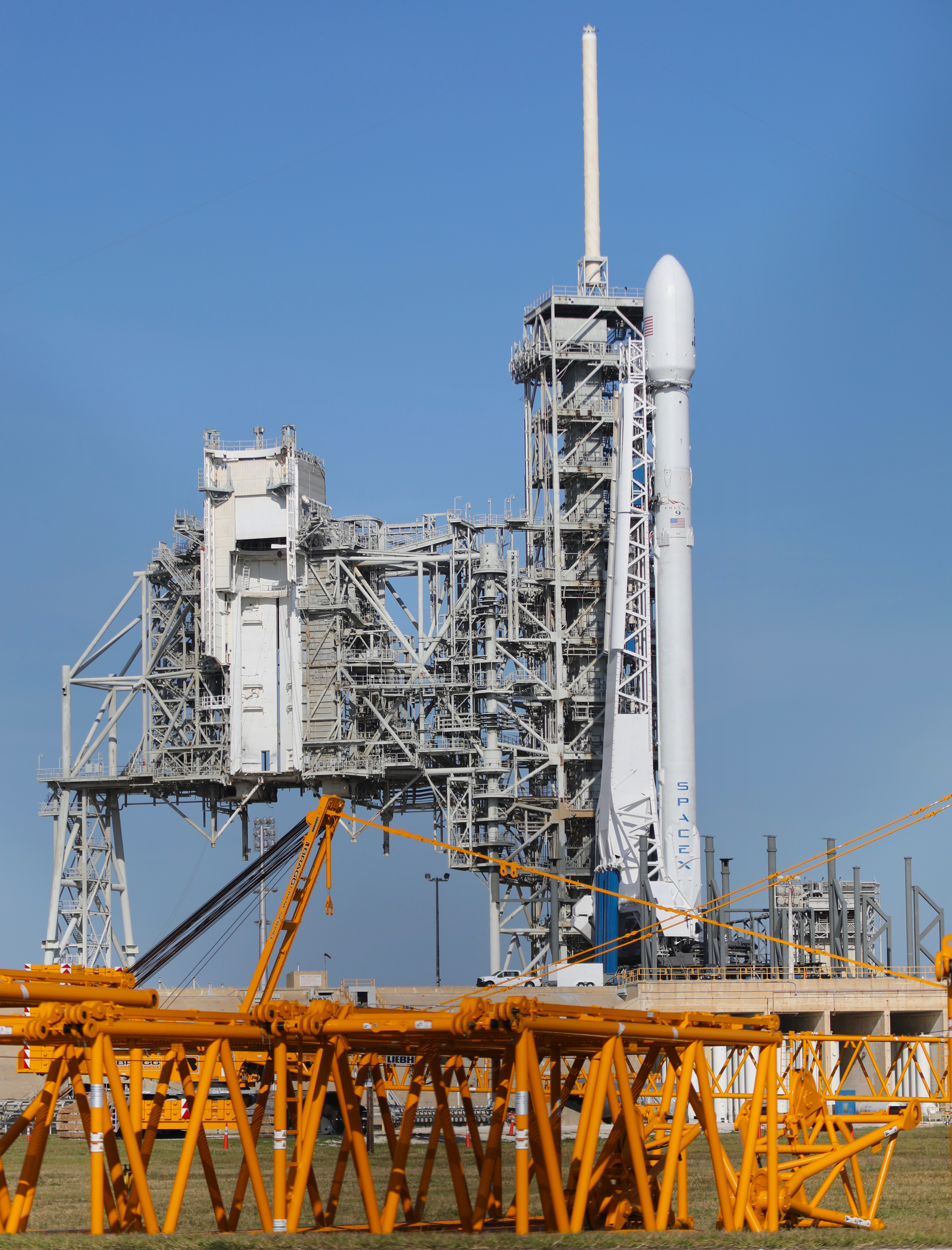 At the historic Apollo 11 Pad 39A for the first reuse of a SpaceX booster (and first attempt at a fairing recovery). Go SpaceX and SES-10, go, go go! Live webcast for the 3:27pm PST launch window